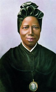 Portrait of Josephine Bakhita